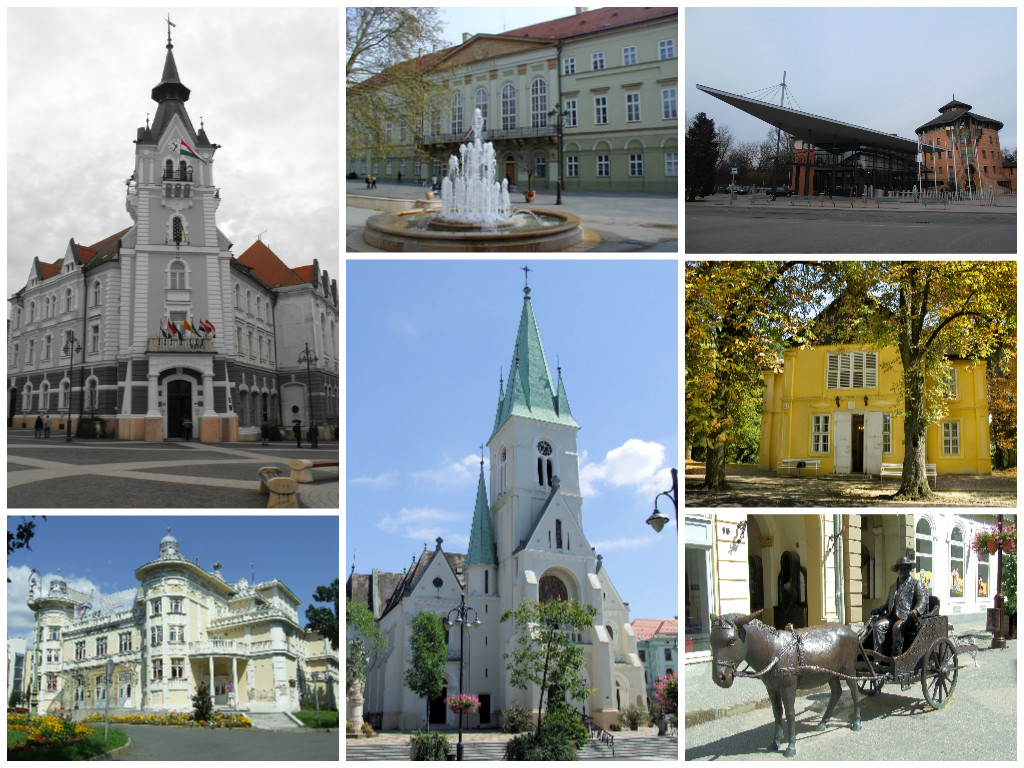 Kaposvár montage